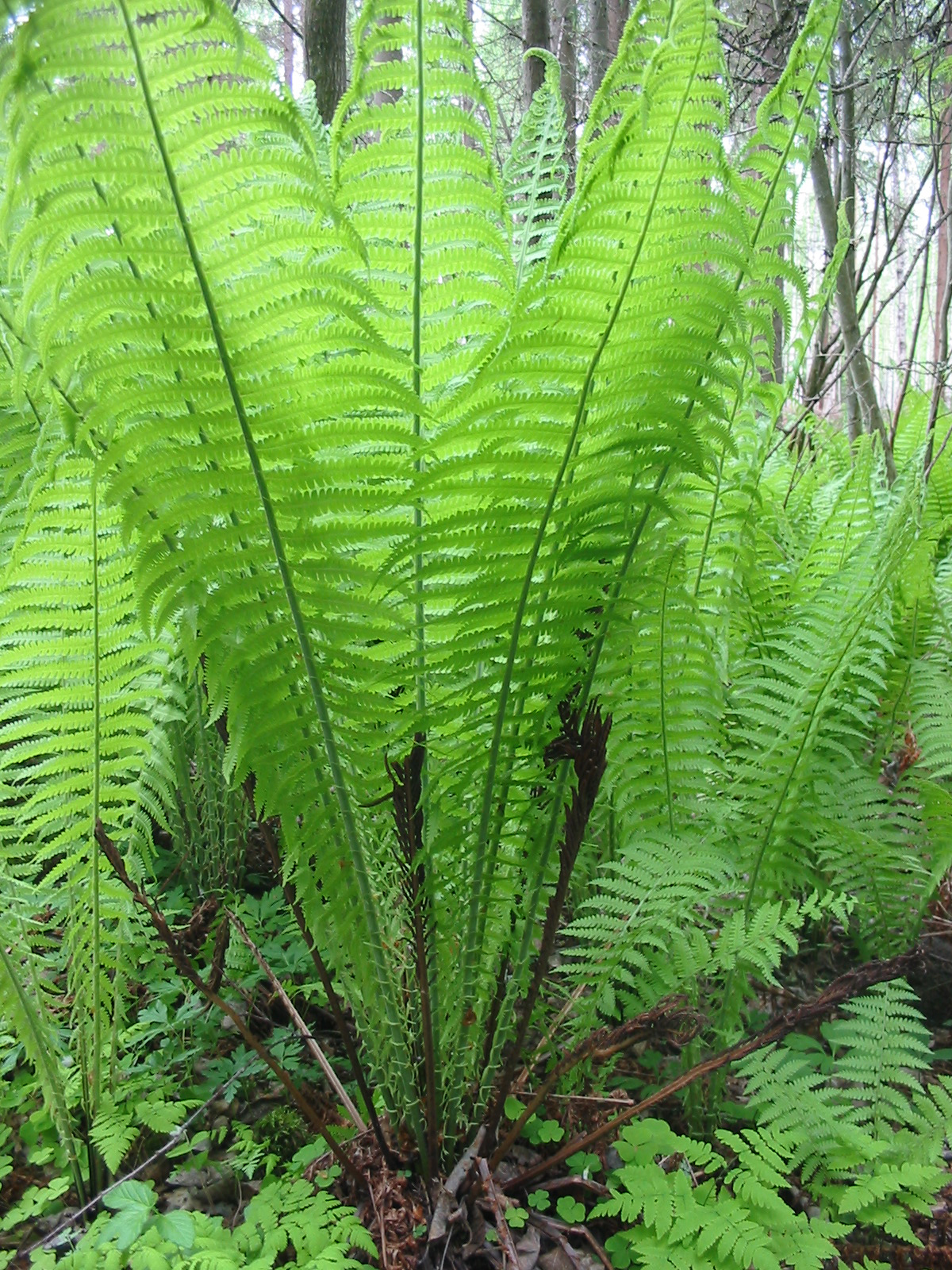 Matteuccia struthiopteris in Ypäjä, Tavastia Proper, Finland